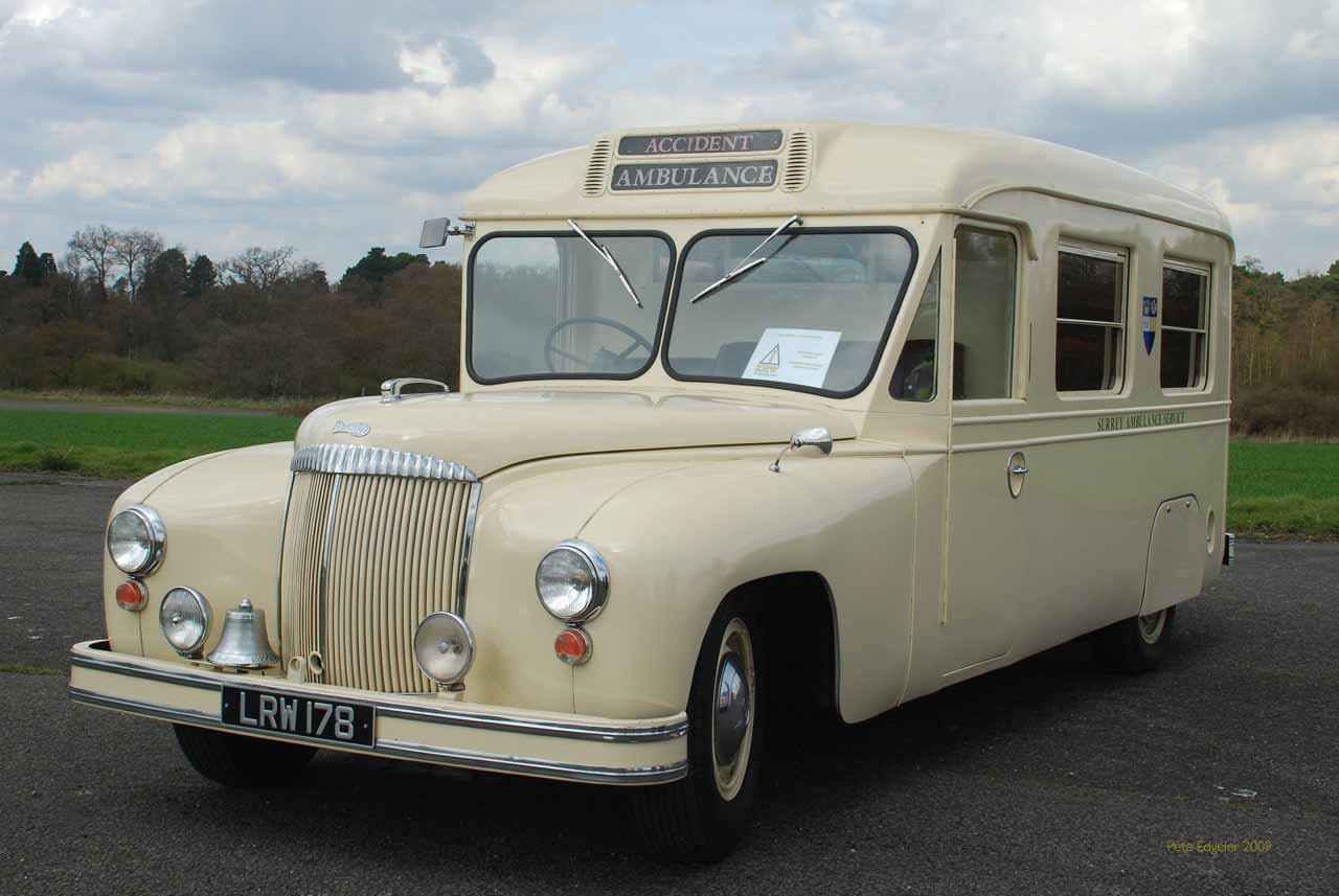 Photographed at Wisley Bus Rally in the UK, April 2009.